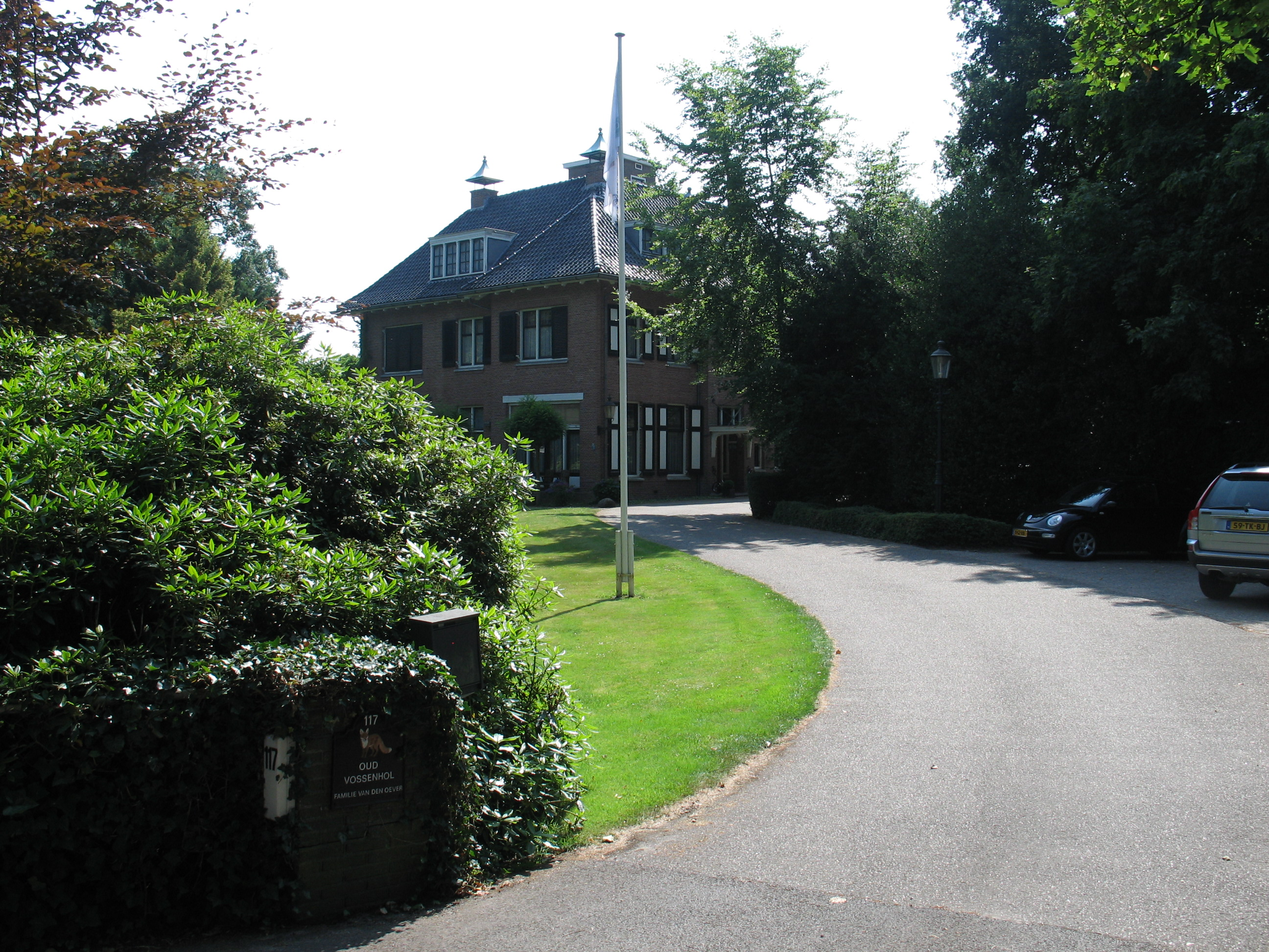 Oud Vossenhol, Bennekom